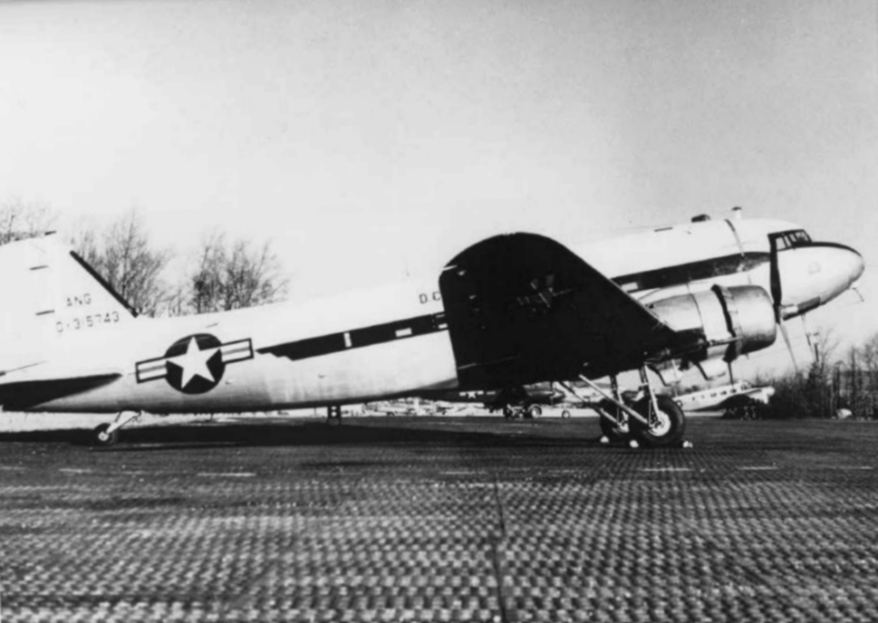 A U.S. Air Force Douglas C-47A-90-DL Skytrain (s/n 43-15743) of the 113th Wing, District of Columbia Air National Guard. This type was flown by teh DC ANG from 1951-1967. 43-15743 was later sold to the to Philippine Air Force (s/n RP-C82).